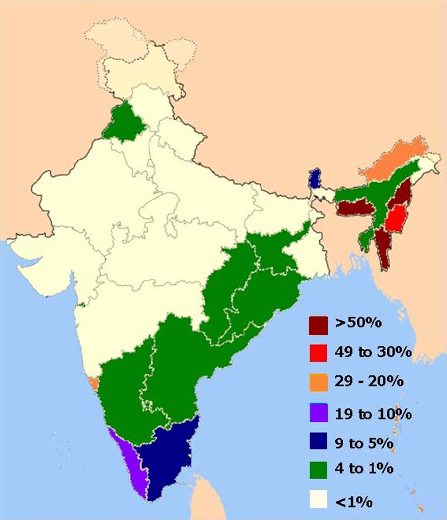 Distribution of Christians in Indian states